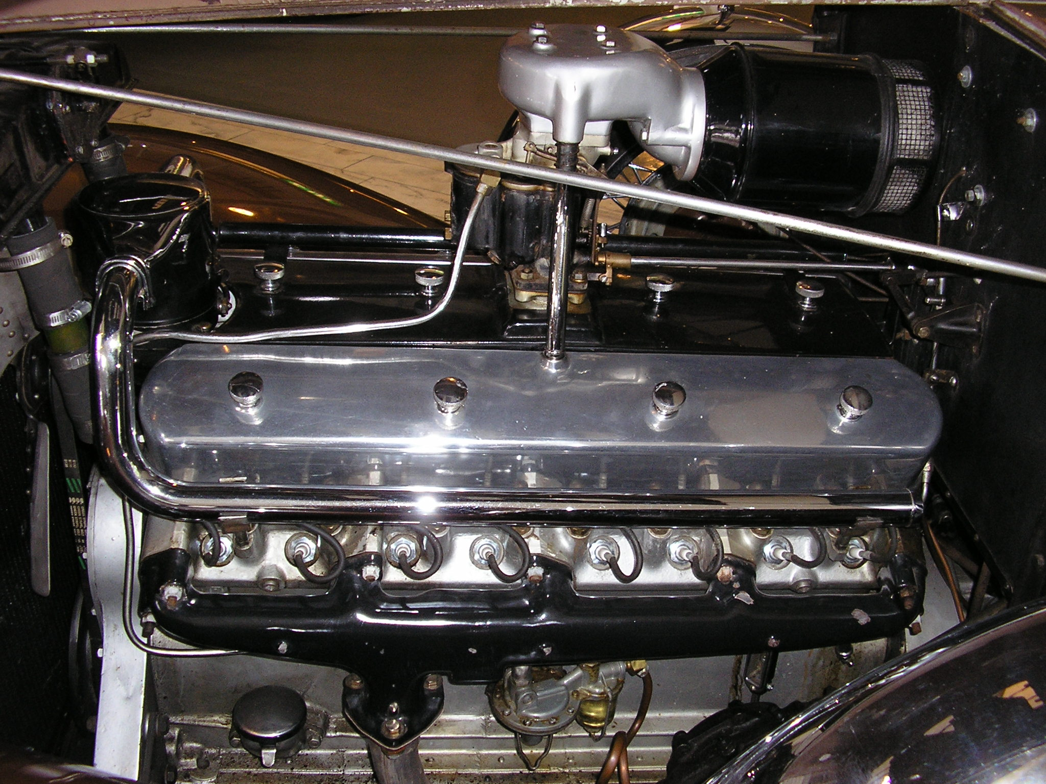 1929 Marmon 8-69 Hayes Sedan